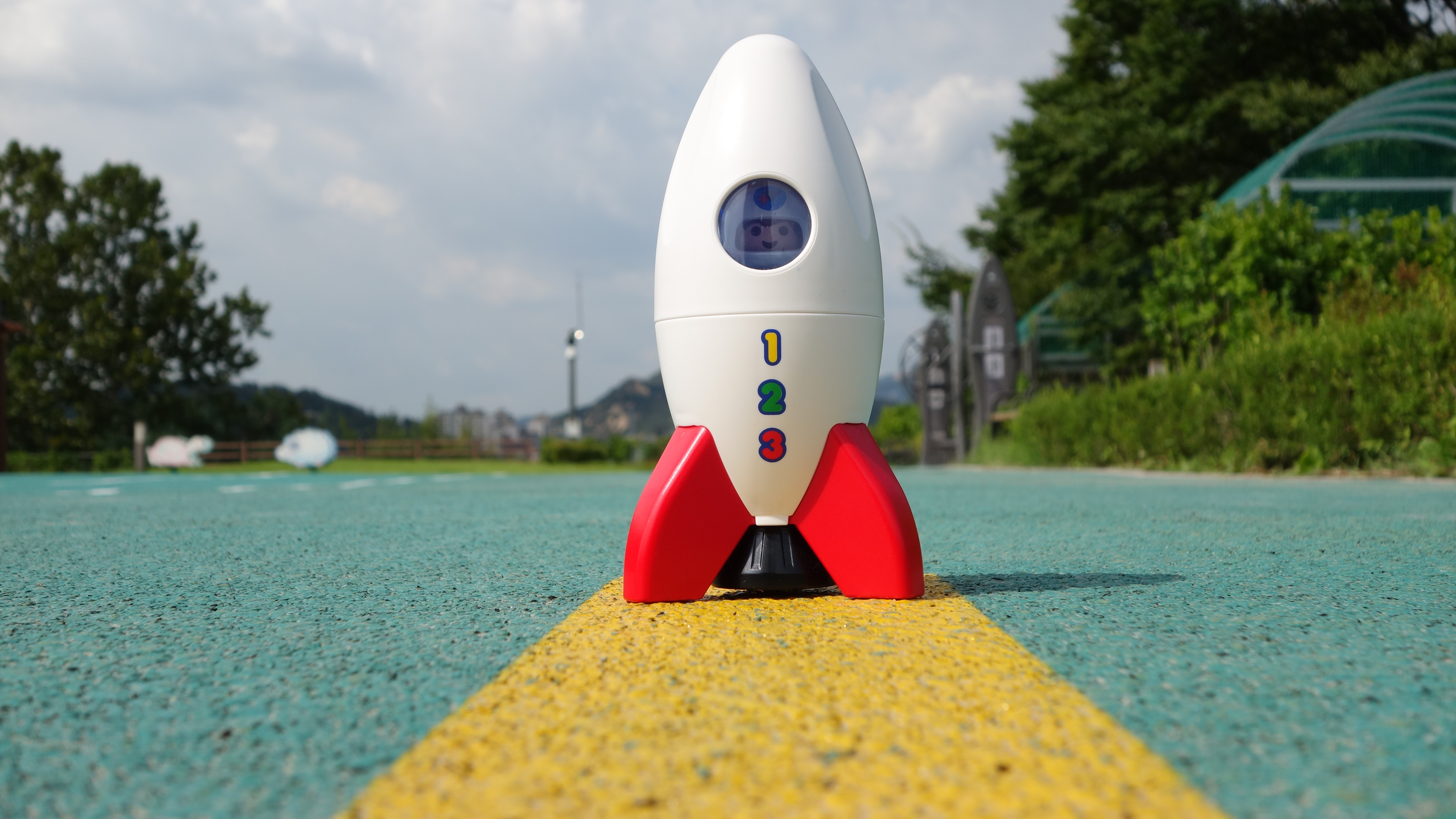 A Playmobil toy rocket ship sitting on the yellow dividing line on a road.